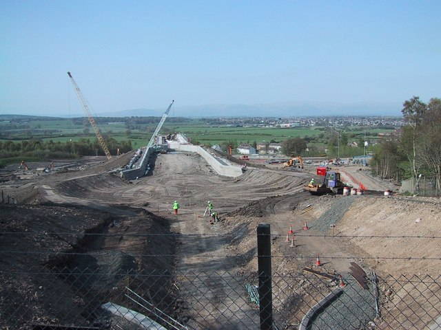 The Falkirk Wheel under Construction An early phase in the construction of the Falkirk Wheel. The circular depression marks the future site of the wheel.